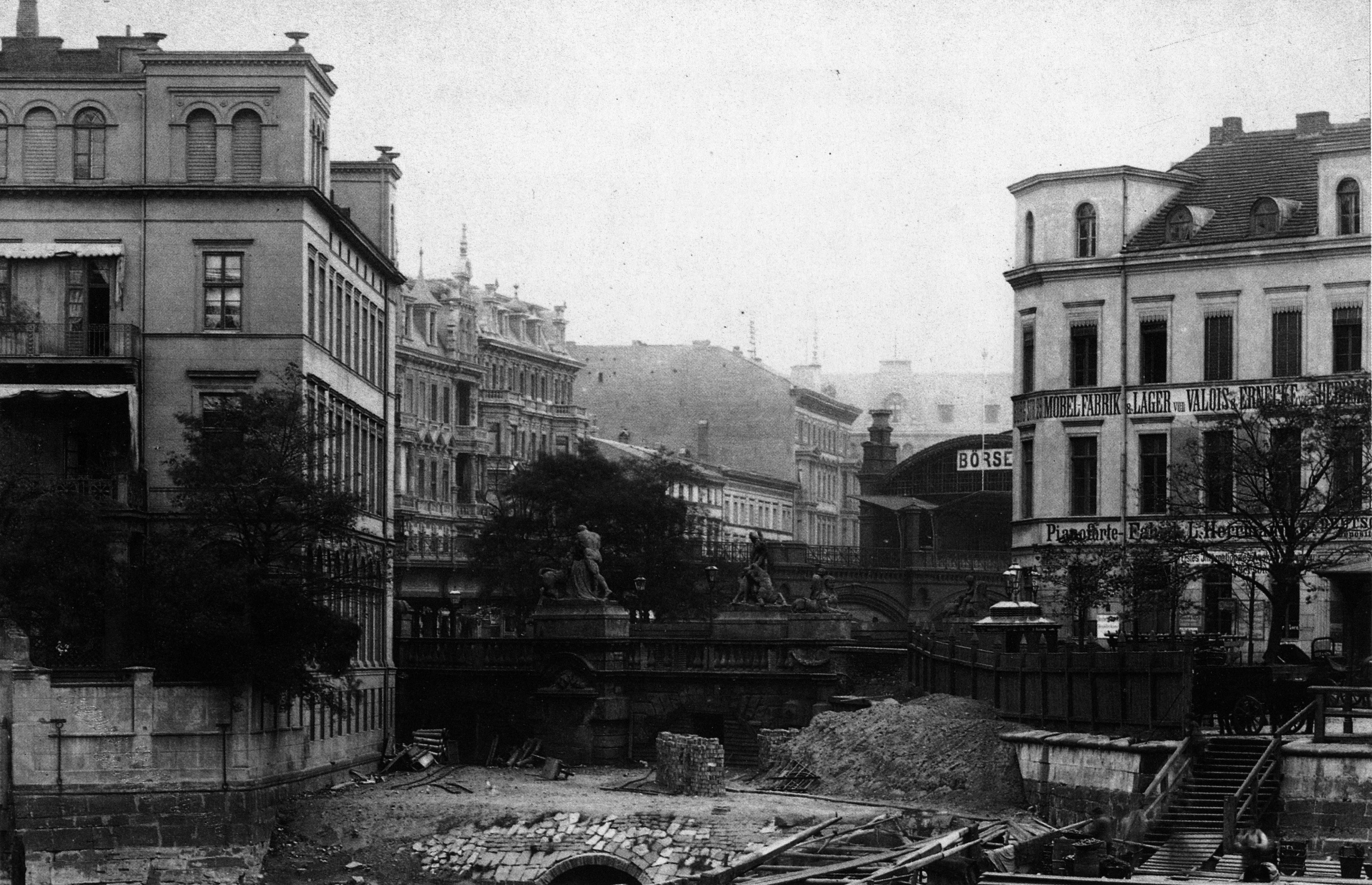 The filling of the old fortification moat of Berlin at the Herkulesbrücke (“Hercules bridge”), which was torn down later. Visible in the background is Börse (“stock exchange”) train station, now Berlin Hackescher Markt station.